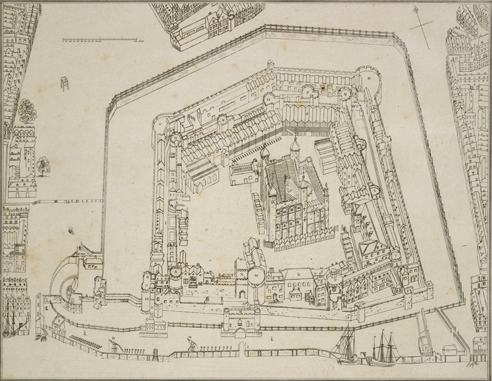 A plan of the Tower of London from a drawing made between 1681 and 1689.